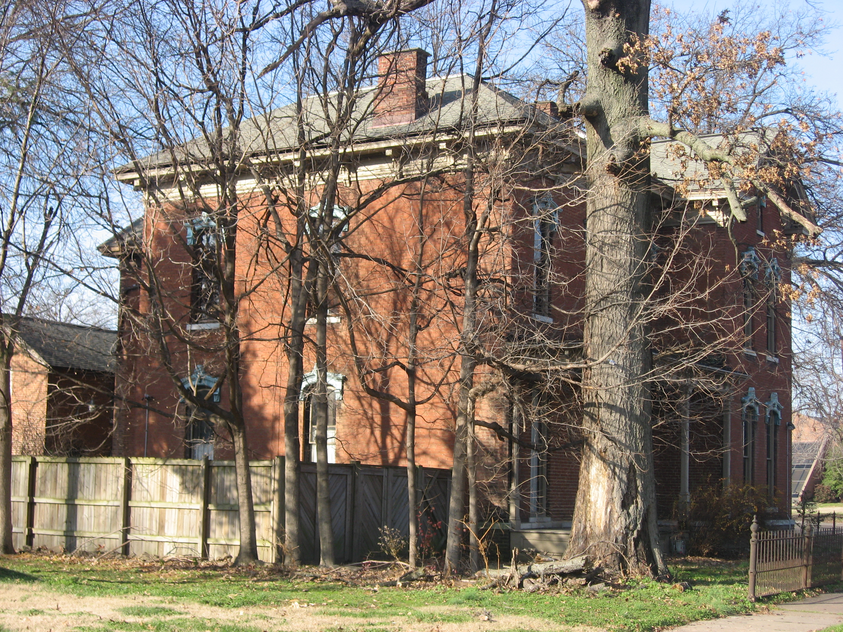 Southern side and front of the Peter Augustus Maier House, located at 707 S. Sixth Street in Evansville, Indiana, United States. Built in 1873, it is listed on the National Register of Historic Places.